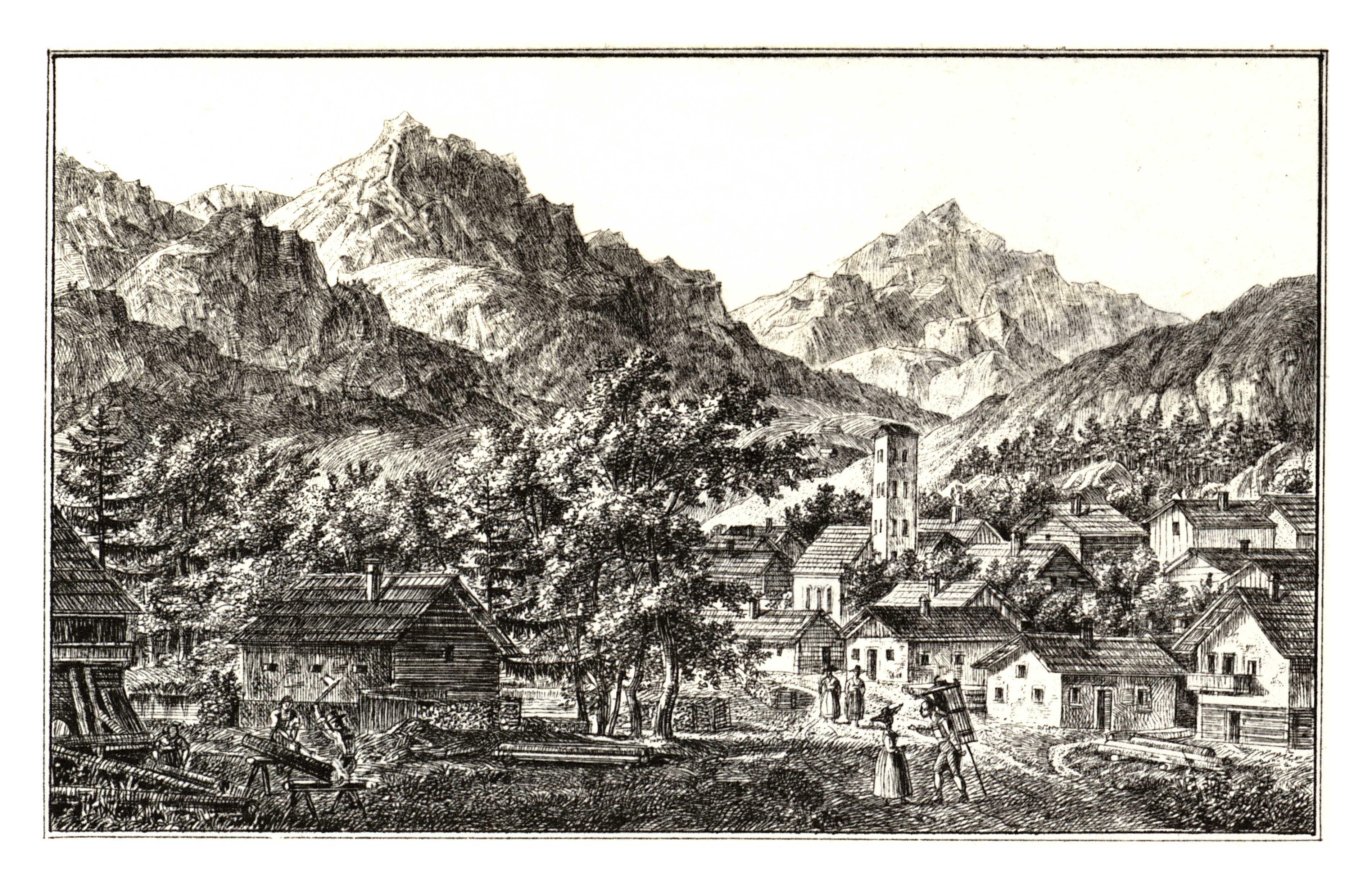 J. F. Kaiser - lithographirte Ansichten der Steyermärkischen Städte, Märkte und Schlösser, Graz 1824-1833 Joseph Franz Kaiser (1786–1859) Alternative names J. F. KaiserDescriptionAustrian printer and editorDate of birth/death 11 March 1786 19 September 1859Location of birth/death Graz (Styria) GrazAuthority control : Q1499963 VIAF: 30629353 ISNI: 0000 0000 3083 0153 LCCN: n87141671 GND: 129880159 NLP: A24960305 WorldCat creator QS:P170,Q1499963 . Scanprojekt Community Projektbudget 2012 This scan or this PDF-file was created within the GLAM-project Bookscanning, supported by Wikimedia Germany and Wikimedia Austria as a part of the community-project to capture books, documents and pictures which are not eligible to copyright or for which the copyright has expired. This document describes or depicts an object which is located in Austria today. Send requests for uncompressed scans to Hubertl. This work is in the public domain in its country of origin and other countries and areas where the copyright term is the author's life plus 100 years or less. You must also include a United States public domain tag to indicate why this work is in the public domain in the United States. This file has been identified as being free of known restrictions under copyright law, including all related and neighboring rights.